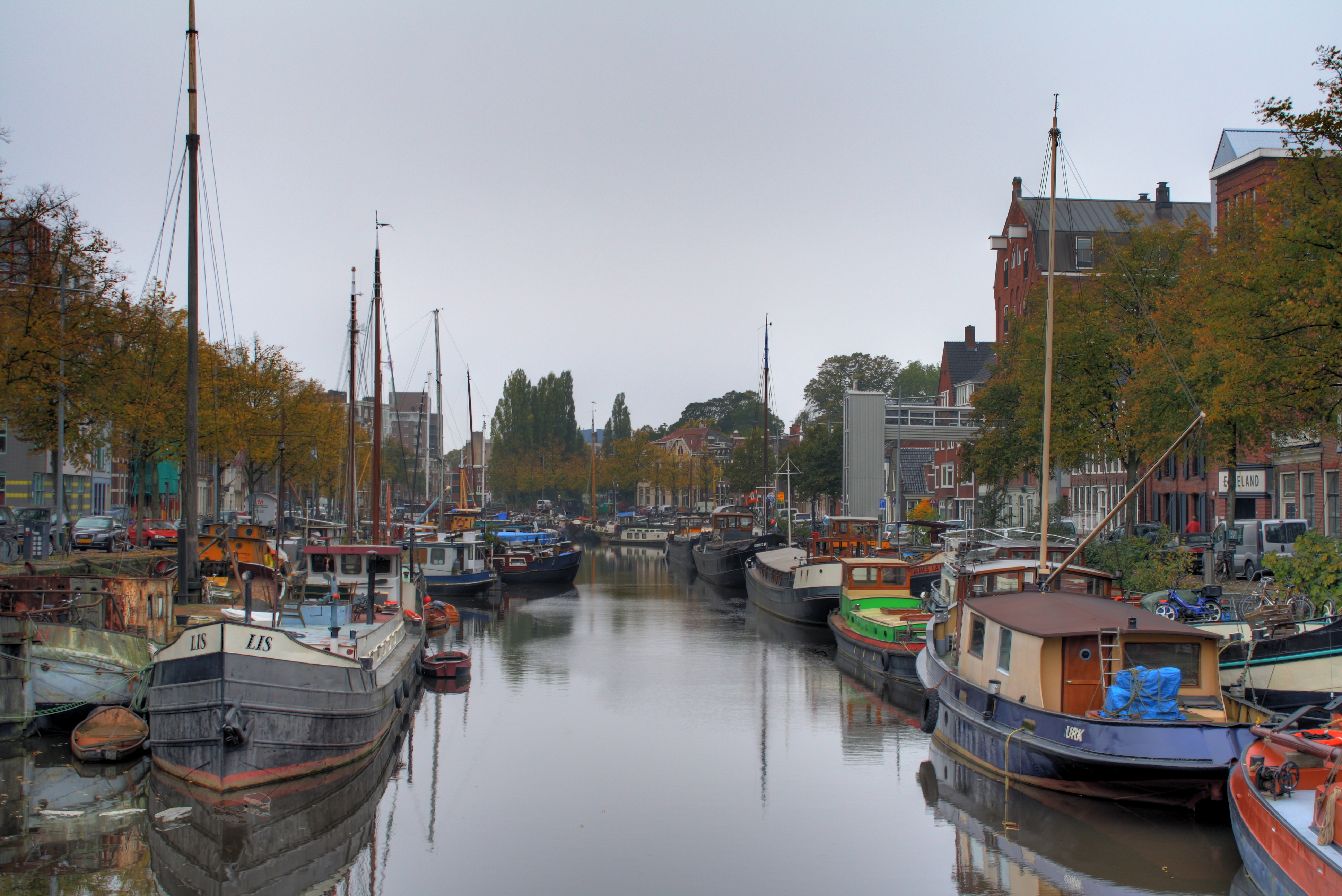 A HDR composing of the Noorderhaven in Groningen.